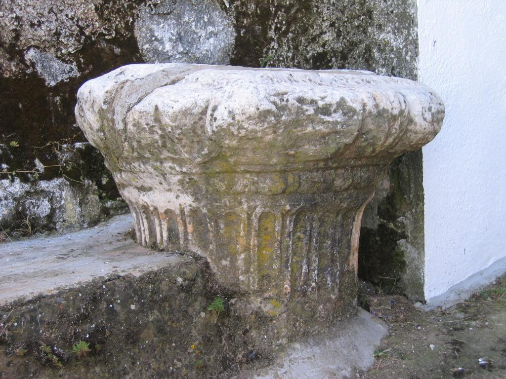 Capitel reutilizado en la entrada a la Ermita de Ntra. Sra. del Ara, en Fuente del Arco (Badajoz)